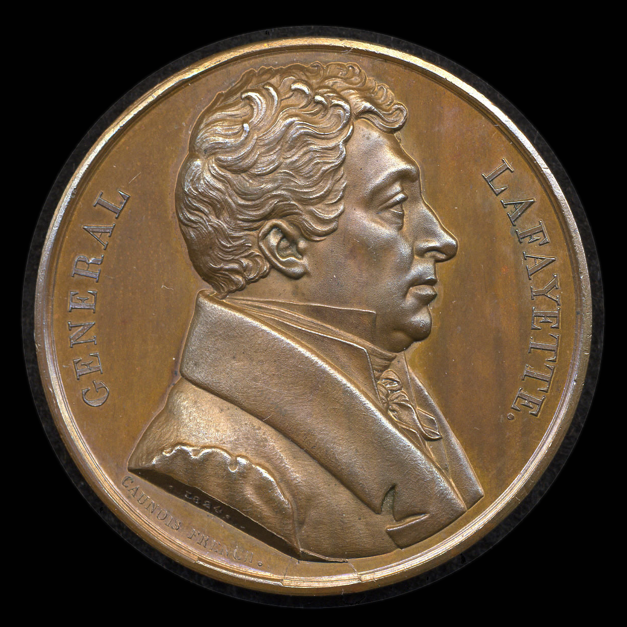 Lafayette Medal (Bronze, 58 mm) (obv) (376-7291)